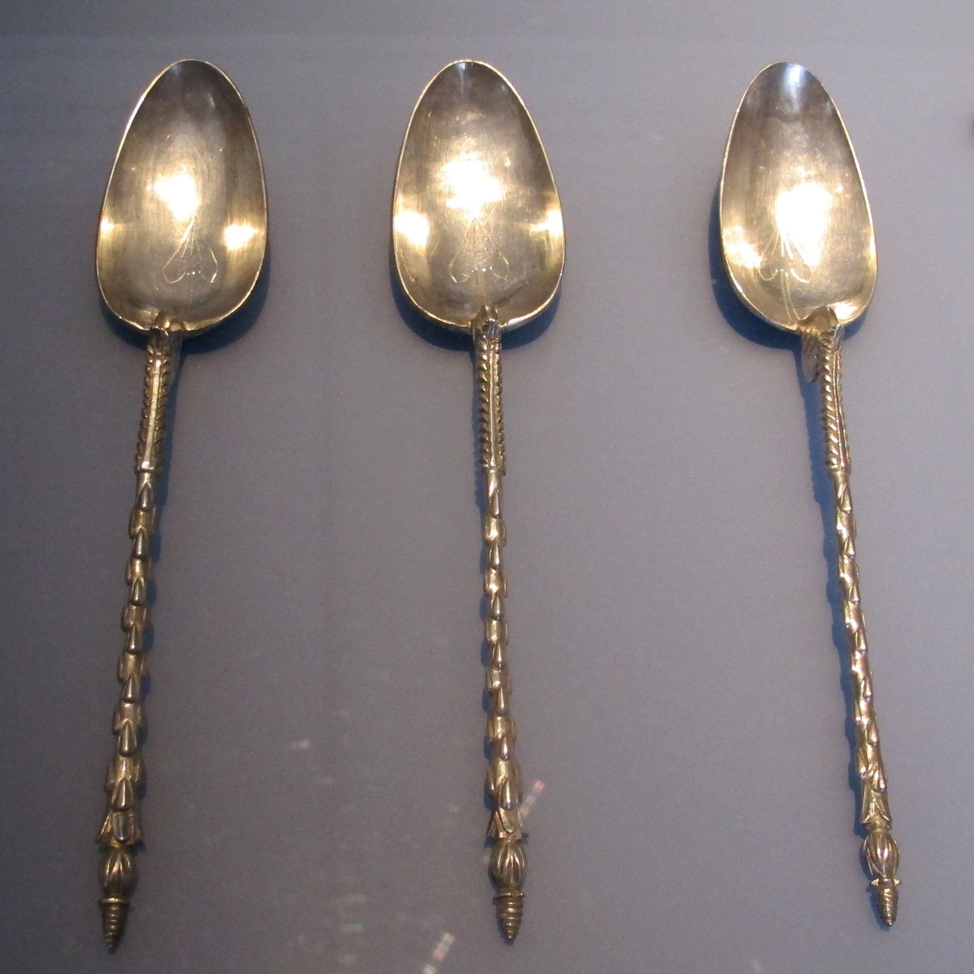 Byzantine art in Switzerland